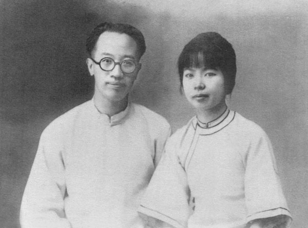 Pre-wedding photograph of Liang Shih-chiu (educator, writer, translator, literary theorist and lexicographer) and Cheng Ji Shu in Beijing in 1926.